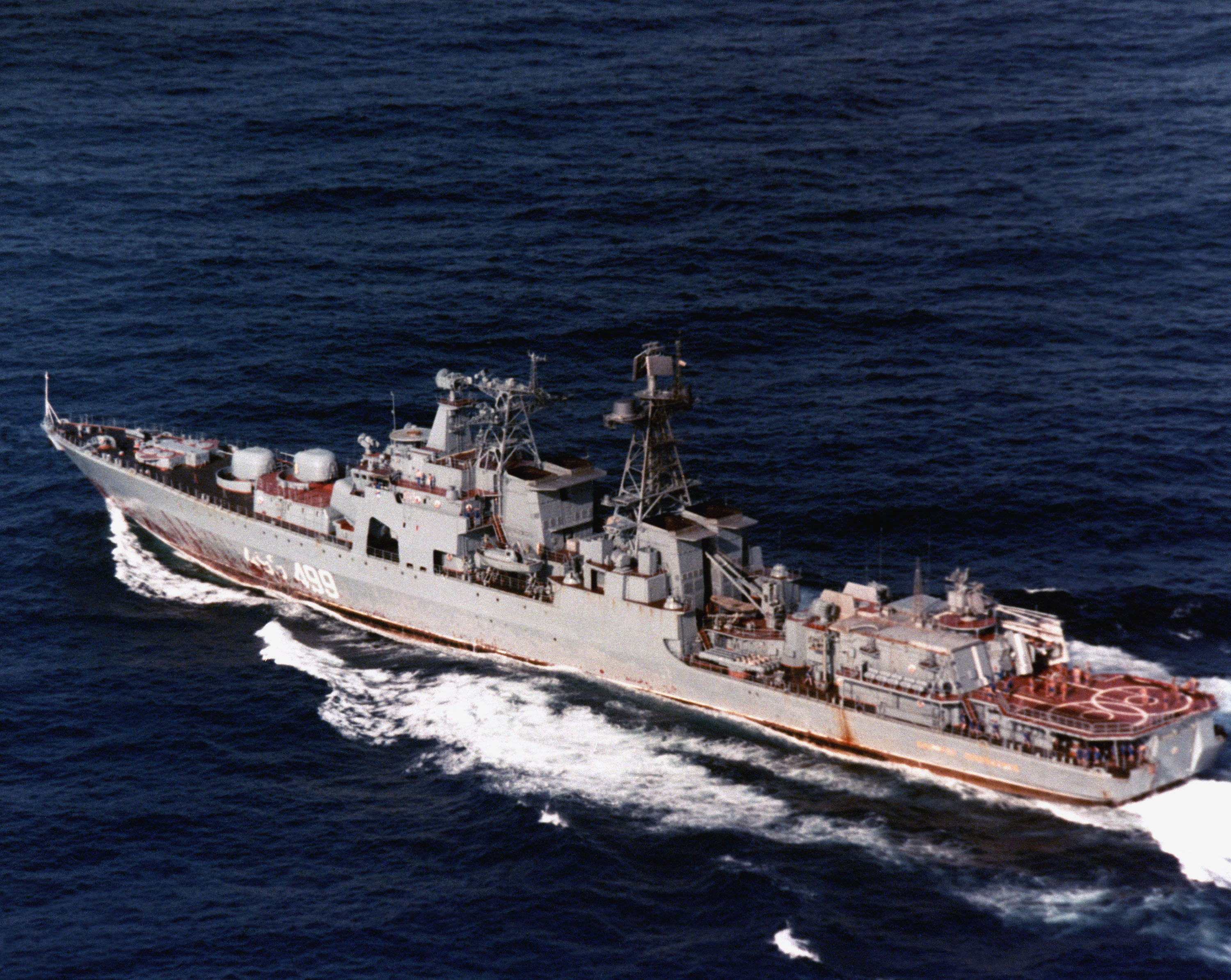 Port quarter view of the Soviet Udaloy class guided missile destroyer ADMIRAL SPIRIDONOV underway.